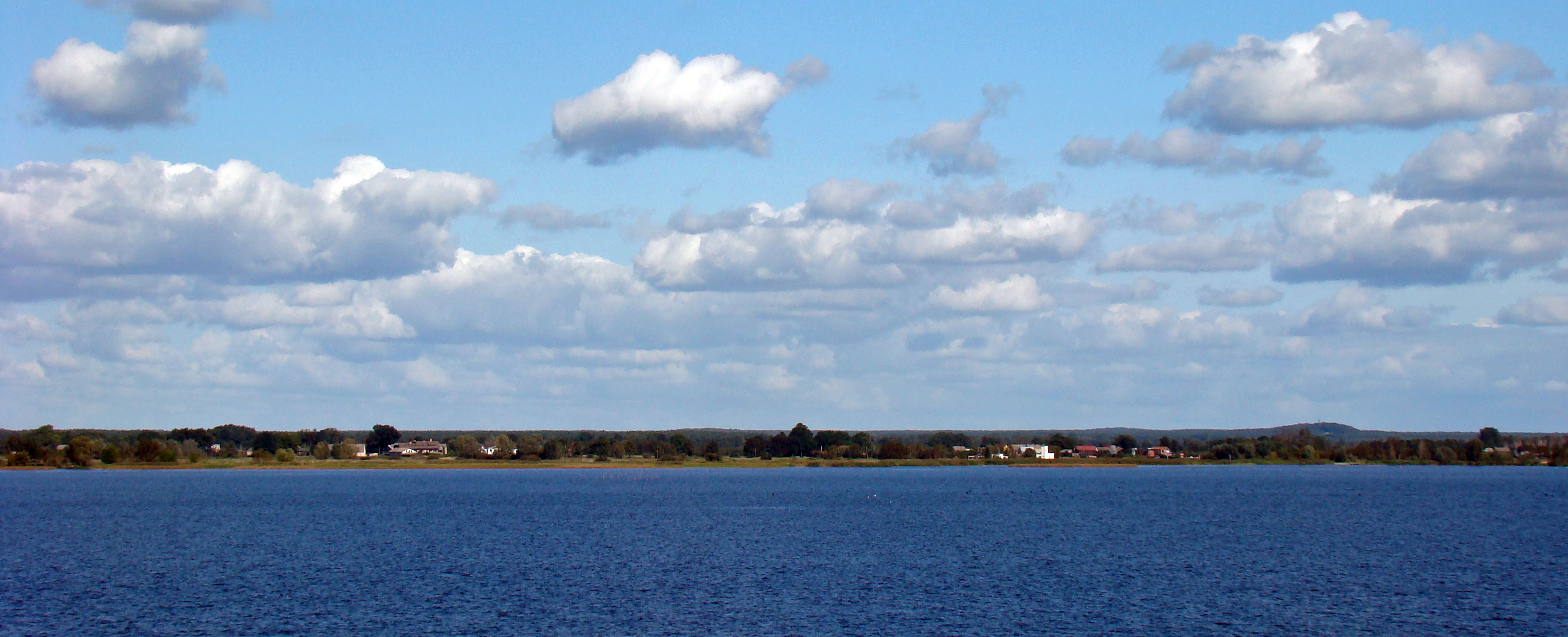 Gmina Stepnica, West Pomeranian Voivodeship, Poland